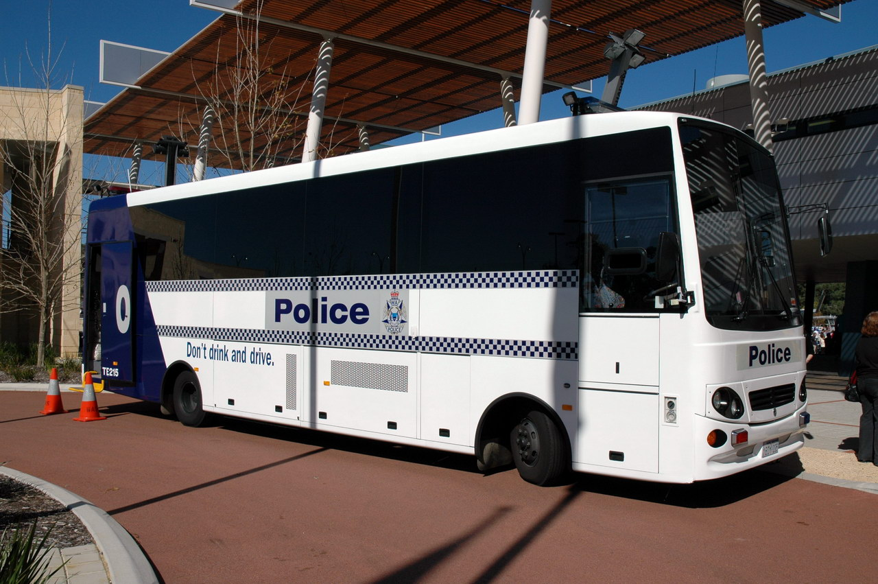 Western Australian Police 'Booze bus' TE215.